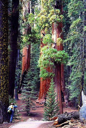 The Sherman Tree Trail in Sequoia National Park. Giant Sequoia trees (Sequoadendron giganteum).